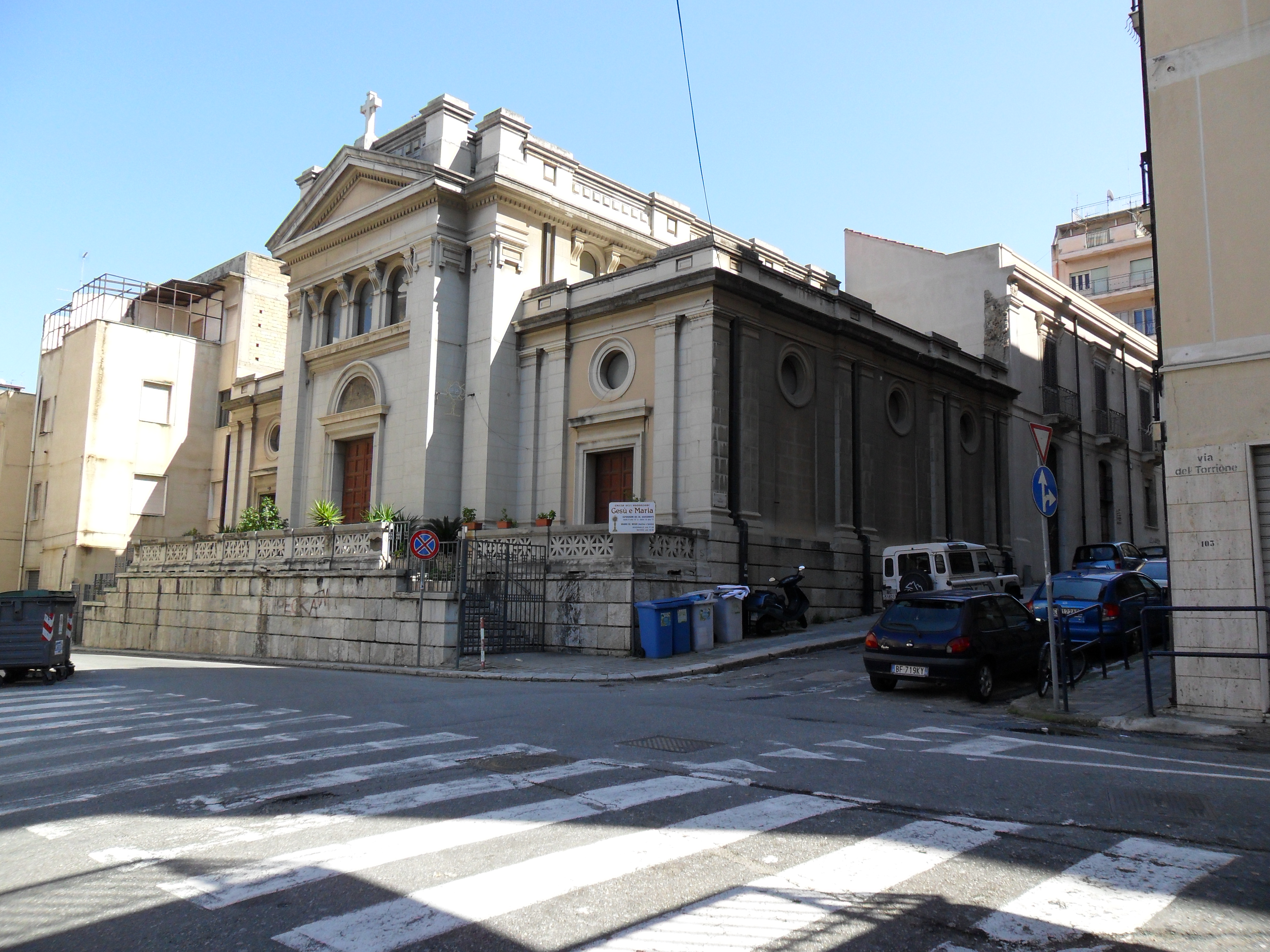 Church of Jesus and Mary